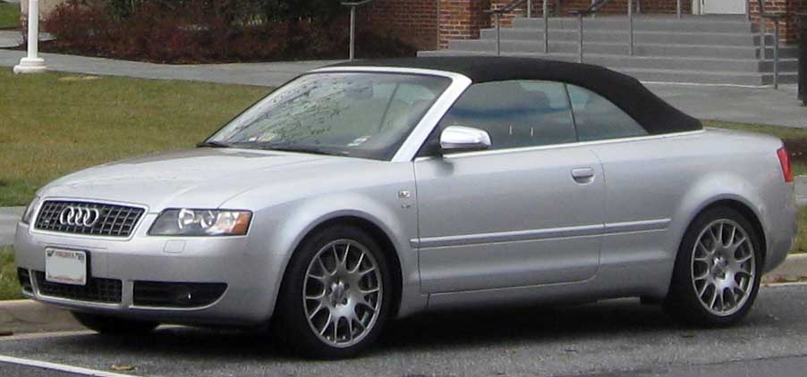 2003-2006 Audi B6 S4 Cabriolet photographed in College Park, Maryland, USA.